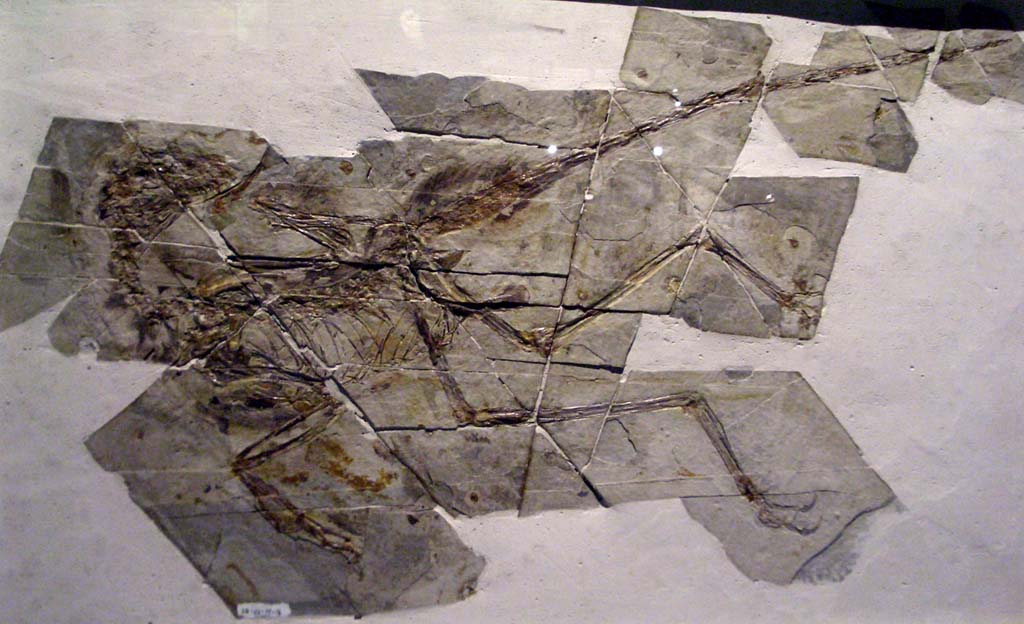 Sinornithosaurus millenii fossil displayed in Hong Kong Science Museum